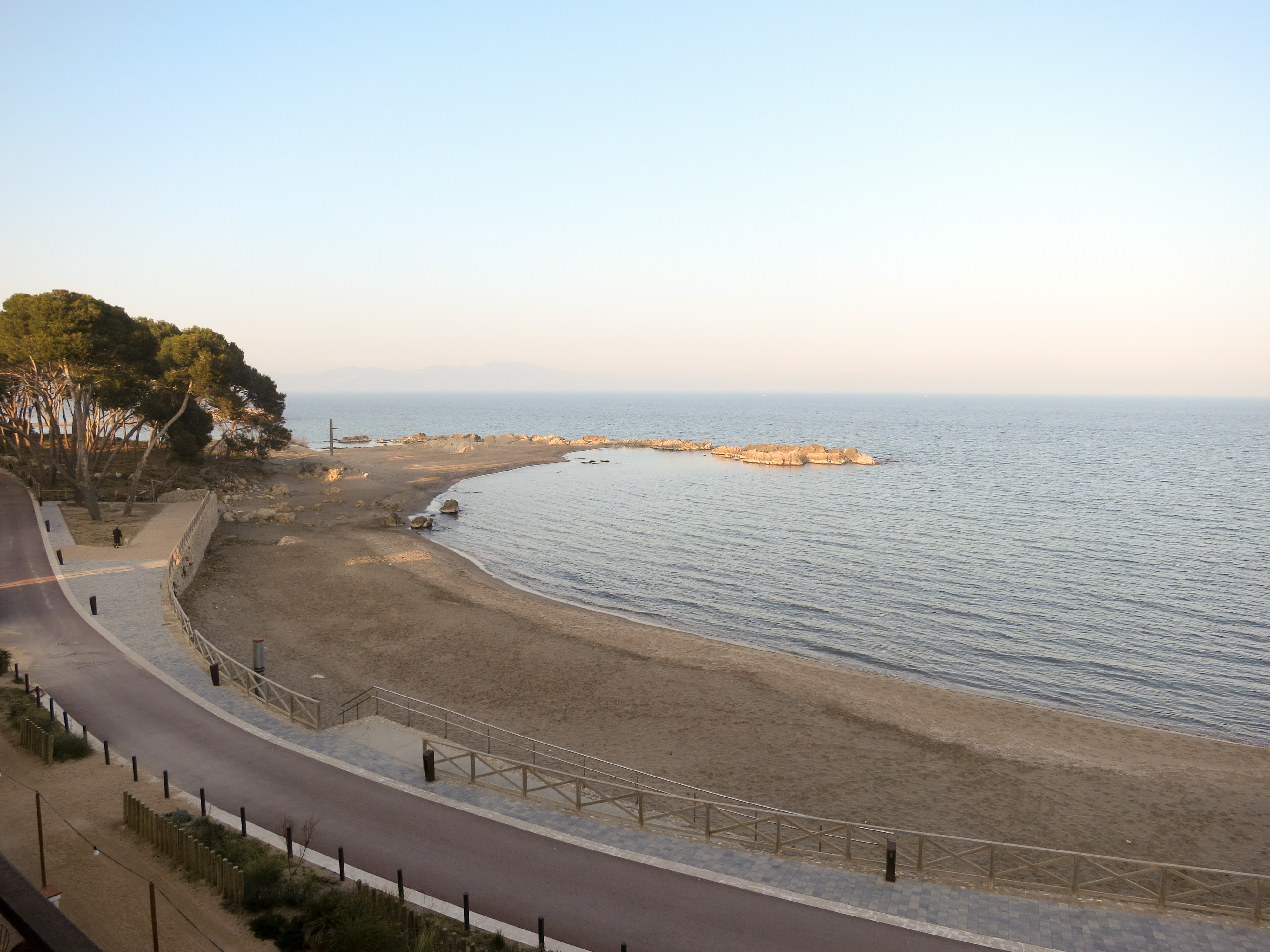 The Muscleres beach (Empúries), next to the Empúries Marathon route, Catalonia, Spain.